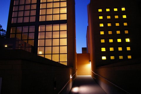 Max Palevsky by night. Photo by Michael Kooiman